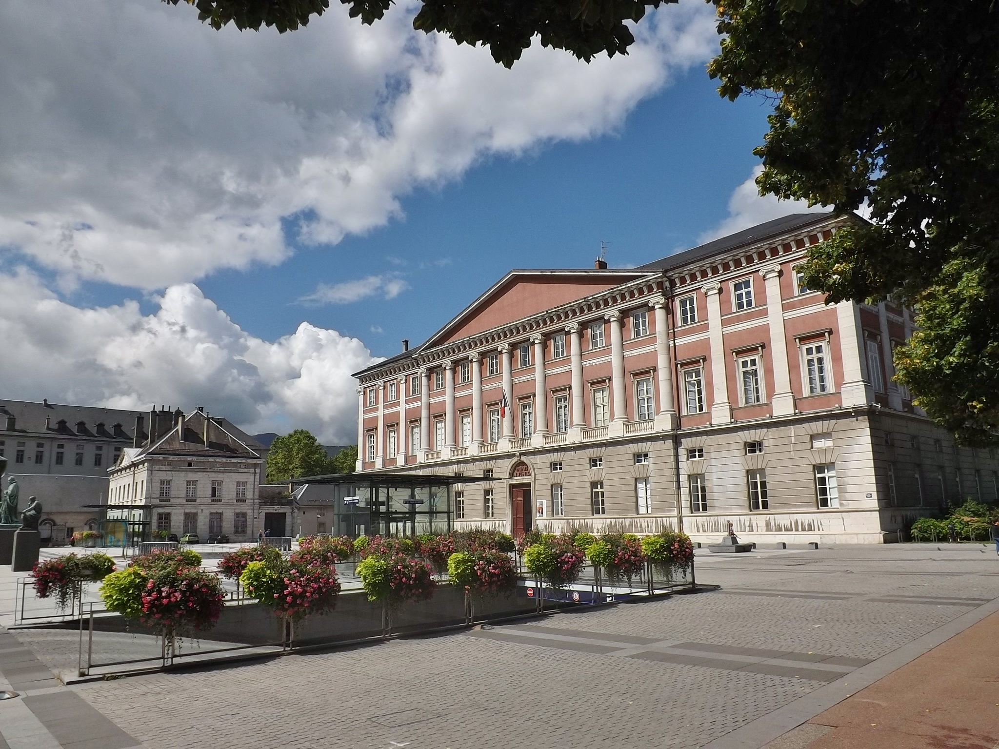 Sight of the place du Palais de justice place and the courthouse of Chambéry, Savoie, France.